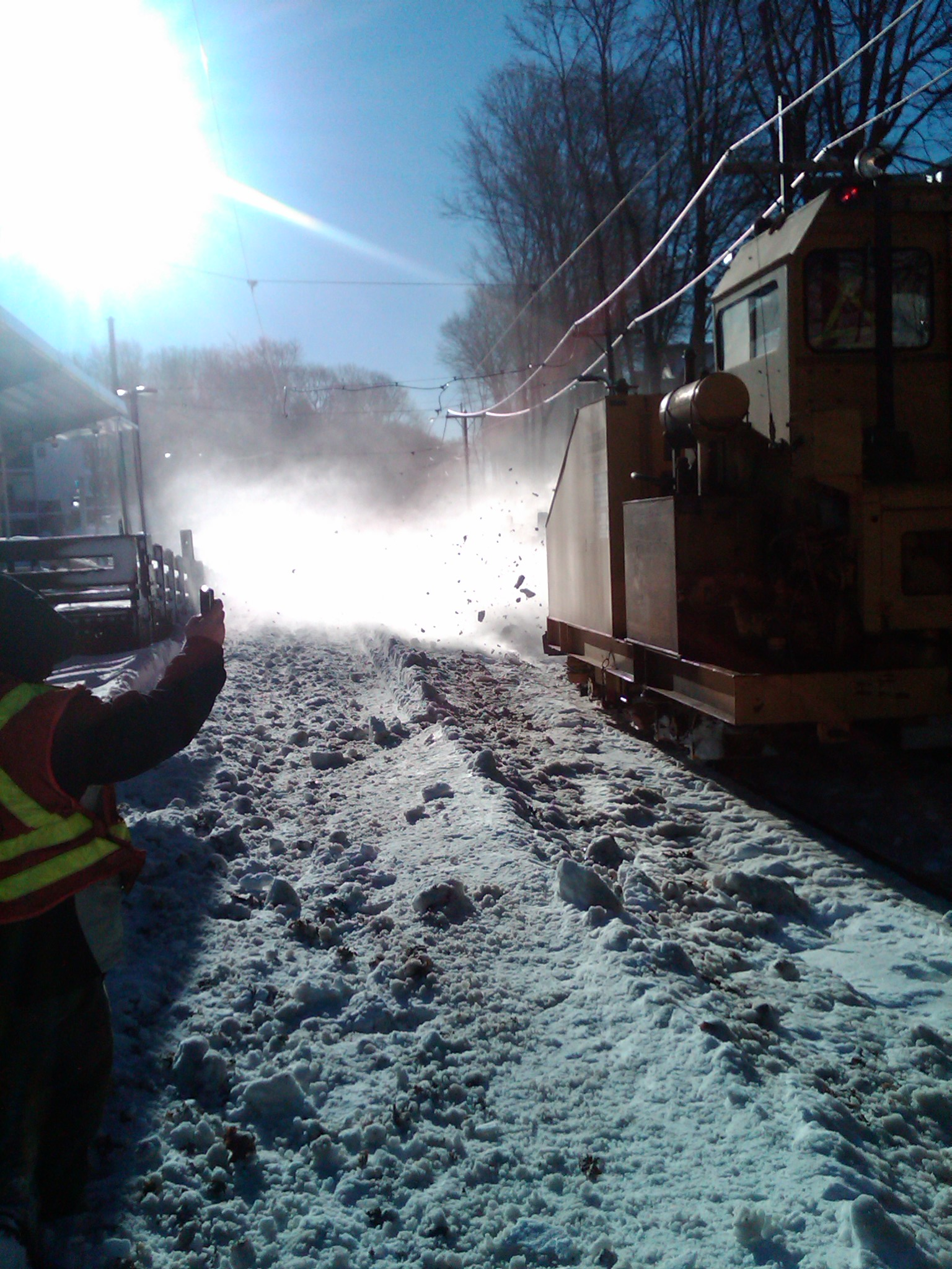 A jet blower ("Snowzilla") clear snow from the tracks at Cedar Grove station in December 2010